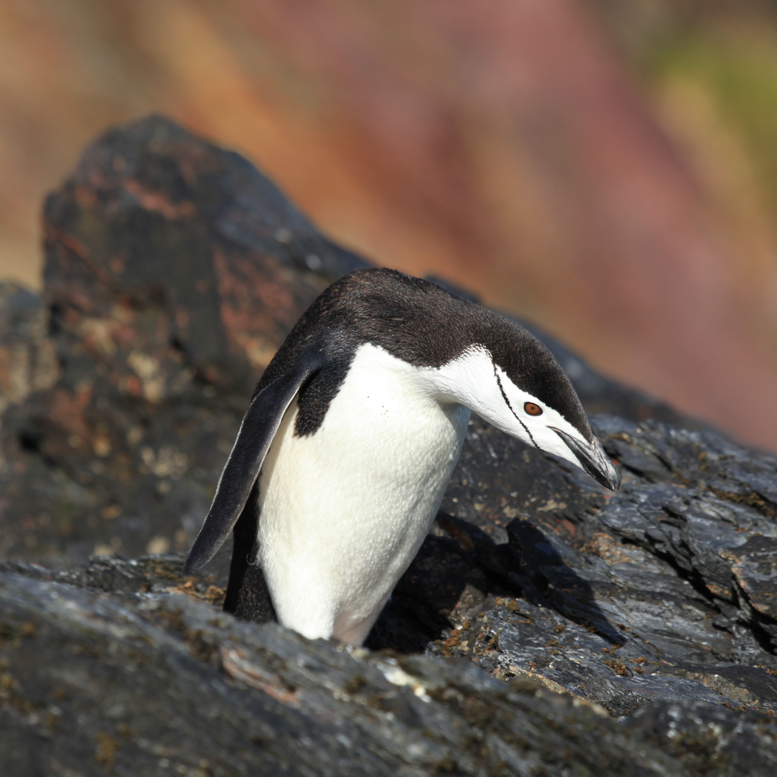 A Chinstrap Penguin in Cooper Bay, South Georgia, British Overseas Territories, UK.